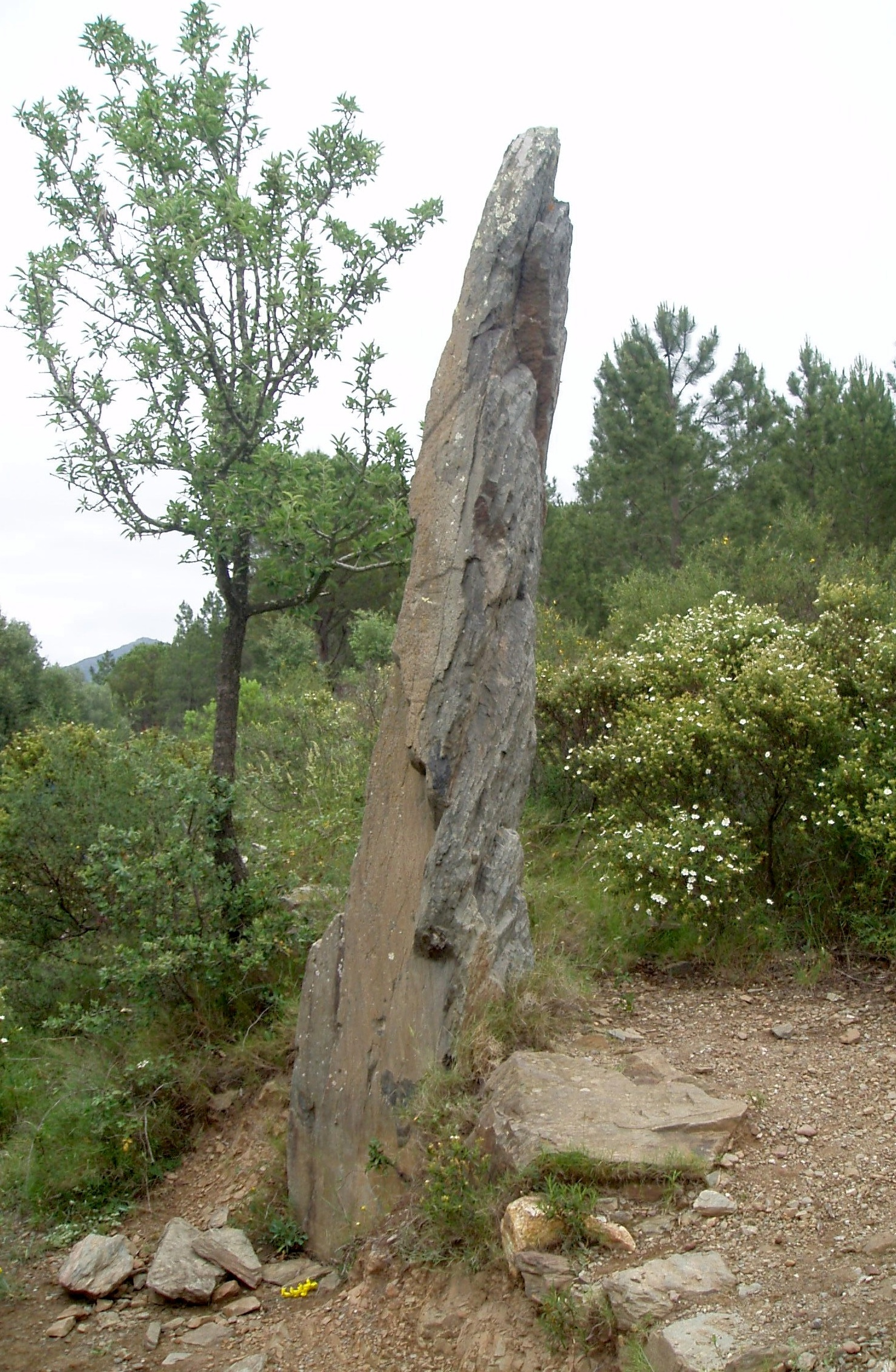 Menhir Mas Roqué